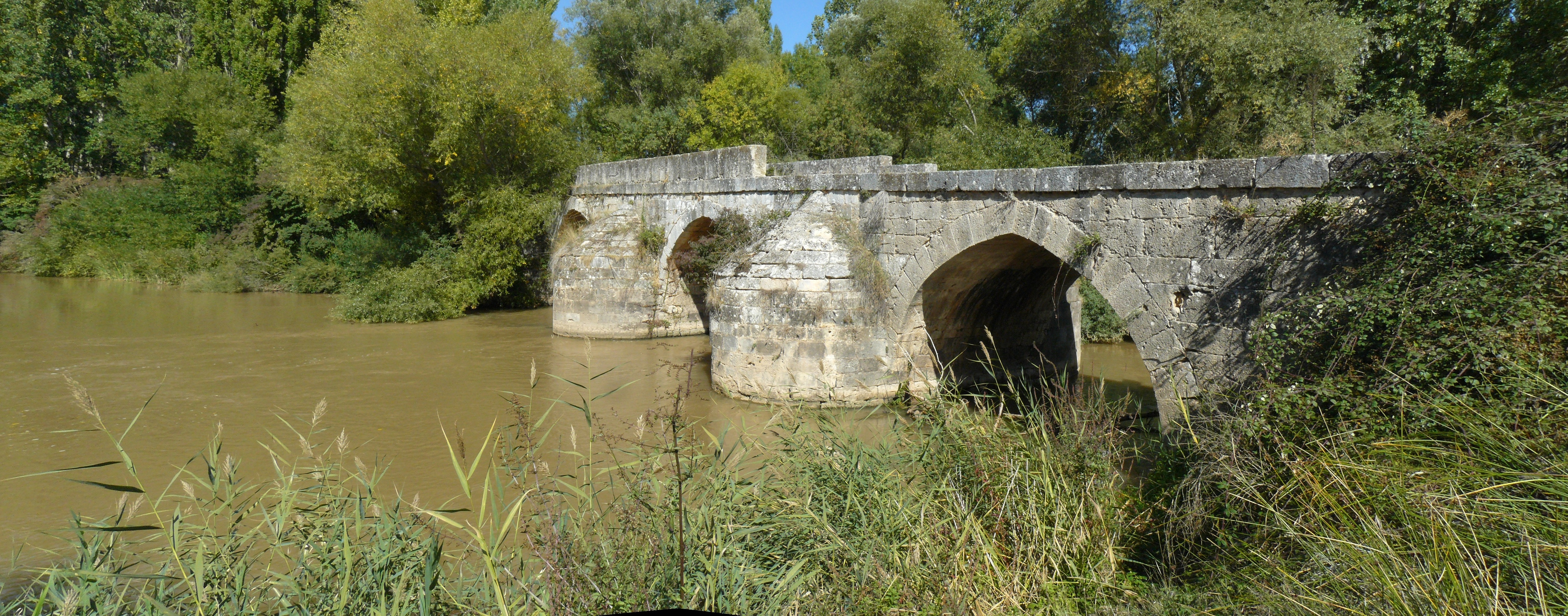 Medieval bridge near Andaluz, Soria (Spain).